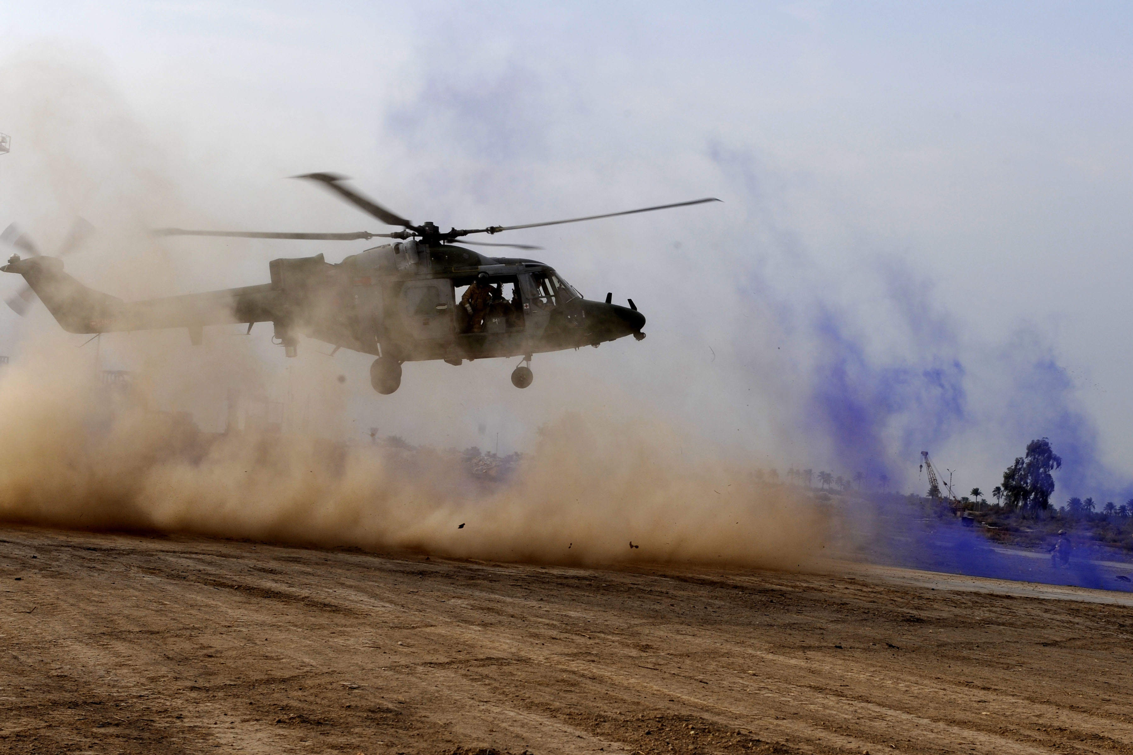 A U.K. Lynx touches down in Camp Sa'ad in Basra, Iraq, on Nov. 21